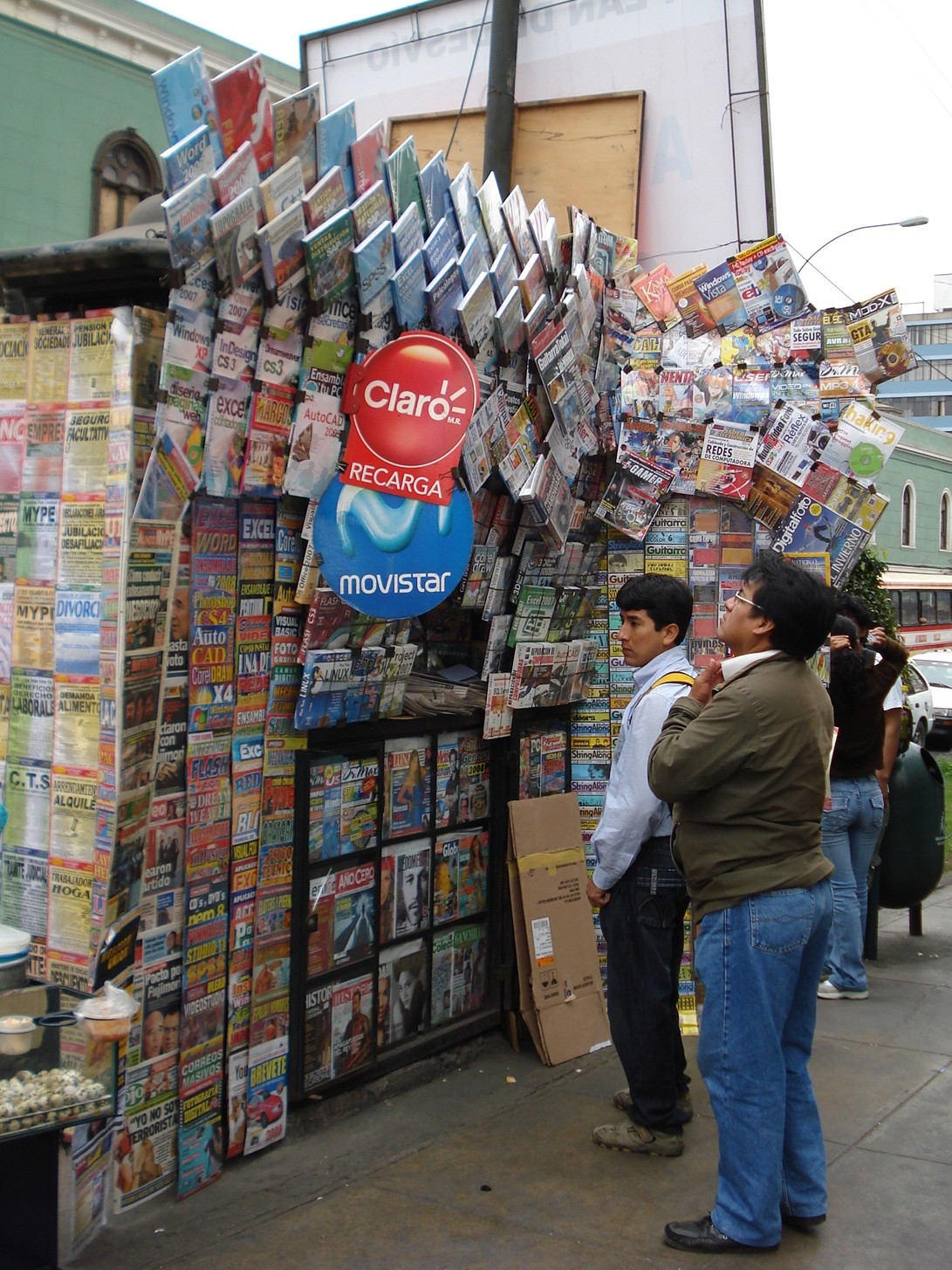 Cruce de Av. Bolivia con Av. Wilson. Lima, Perú. Corner of Bolivia Av. and Wison Av. Lima, Peru.